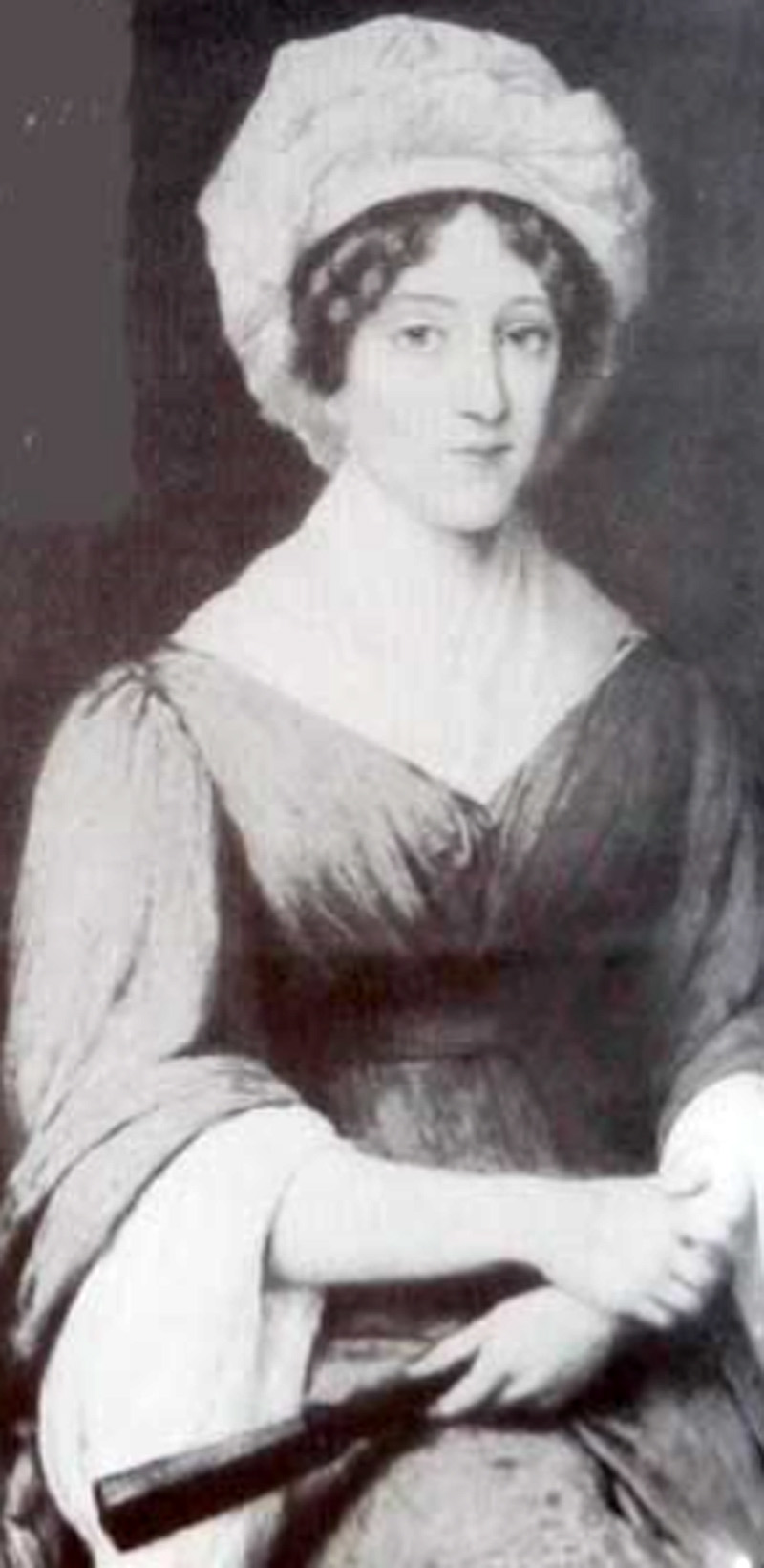 Catherine Llewellyn, wife of William Lllewellyn, owner of Court Colman, Wales.